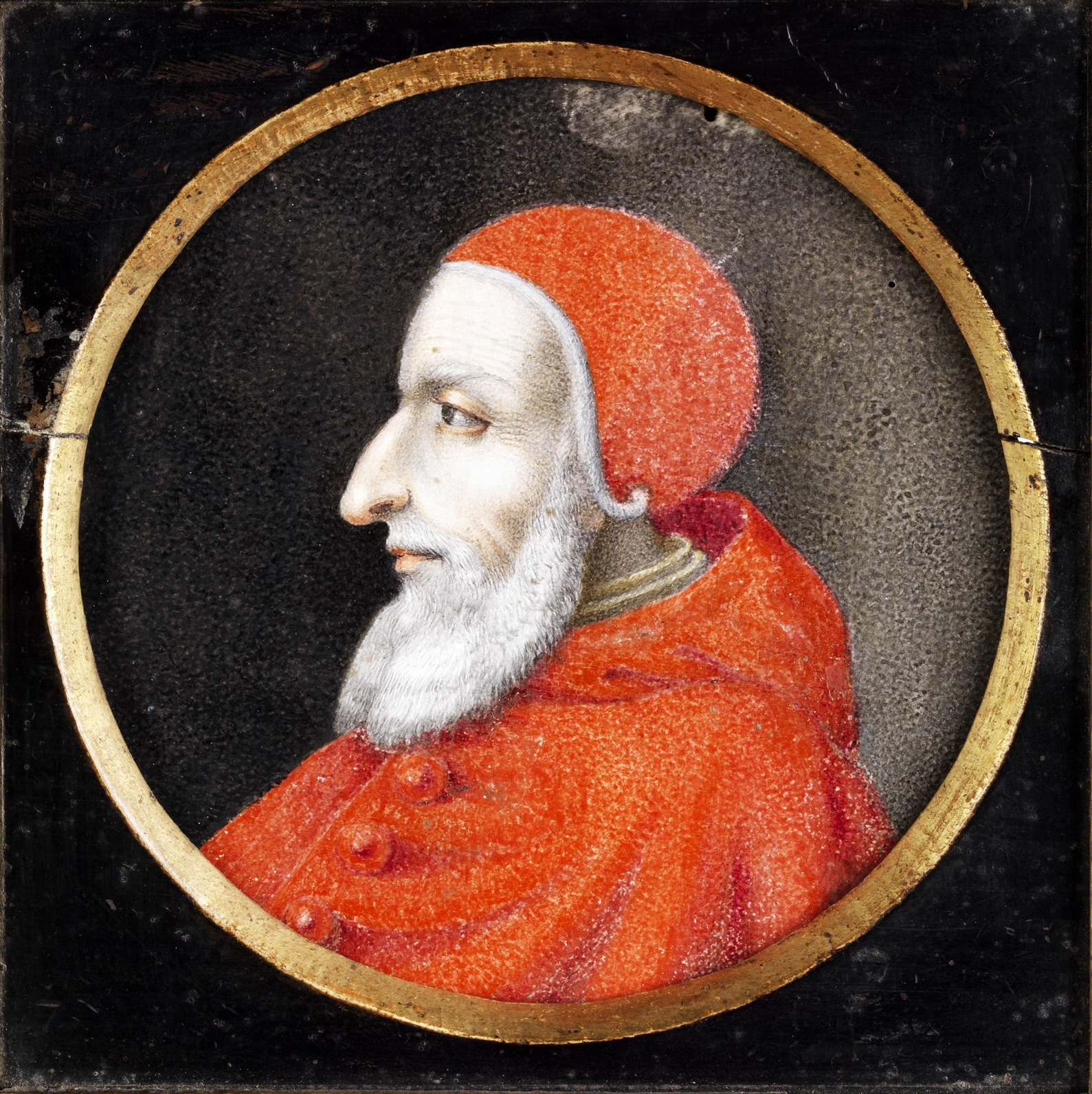 Anonymous, Italian, 17th century: Portrait of Pope Julius II, diameter:13 cm (inscribed on the back: "Papa/ Julius secundus/ De rovere")